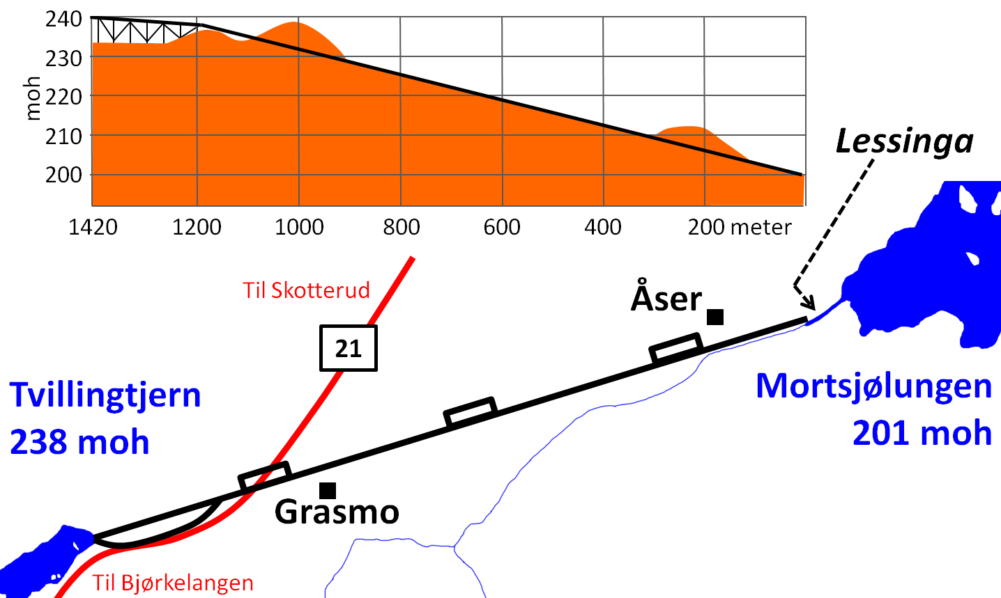 Grasmobanen was an old closed down horse railway